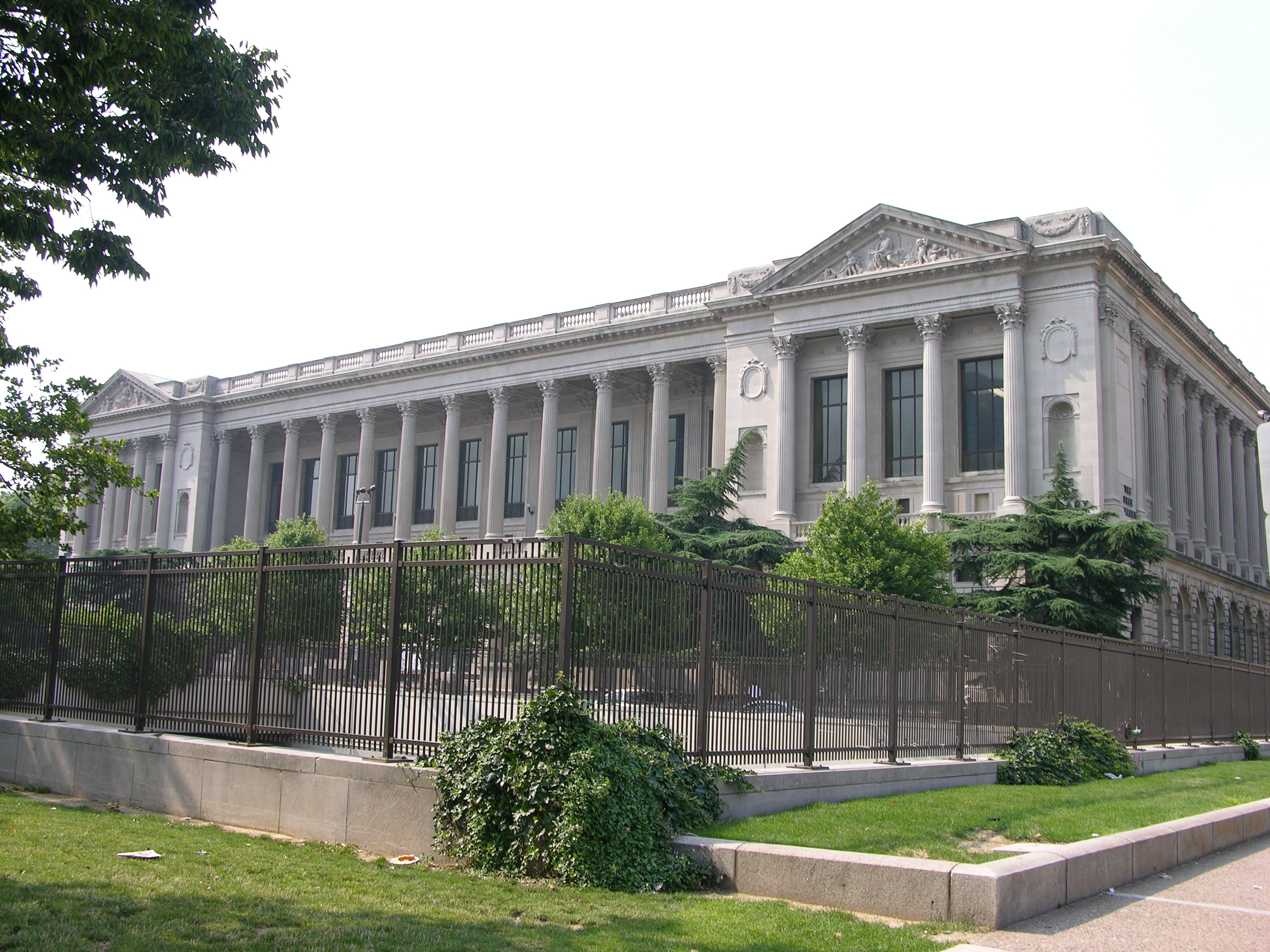 The front of the Parkway Central Library of the Free Library of Philadelphia building.